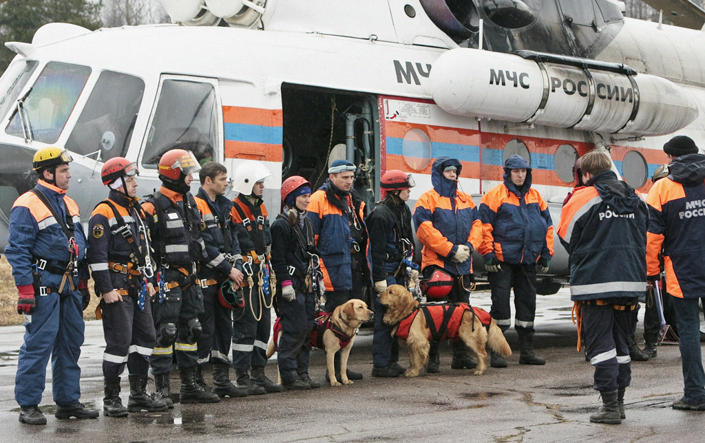 “Emergency Situations Ministry units training in the North-Western Federal District”. Emergency Situations Ministry units of the North-Western Federal District training the landing of helicopter-borne troops to rescue people from sinking facilities or fire, Kasimovo Village, Leningrad Region